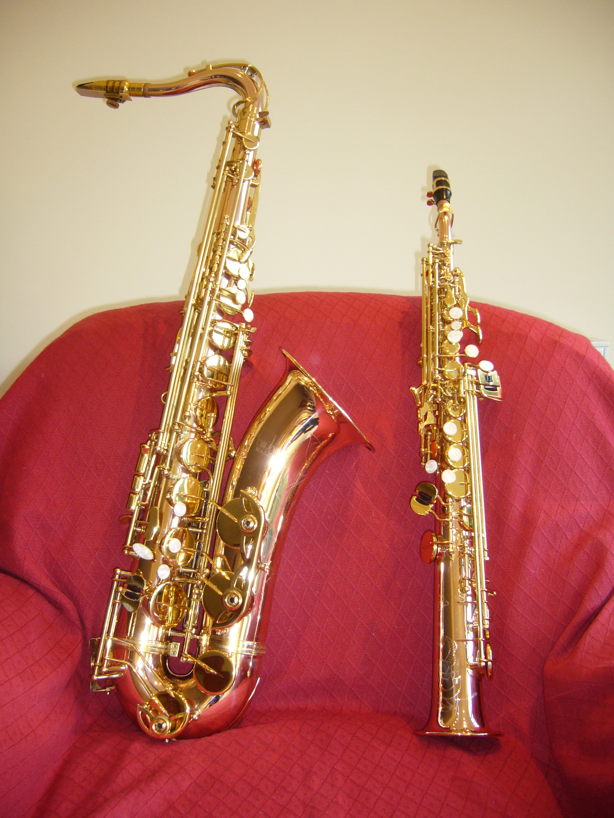 Phosphor bronze Tenor (on the left) and Soprano (on the right) saxophones made by 'Bauhaus Walstein' in 2008, showing their comparative sizes.